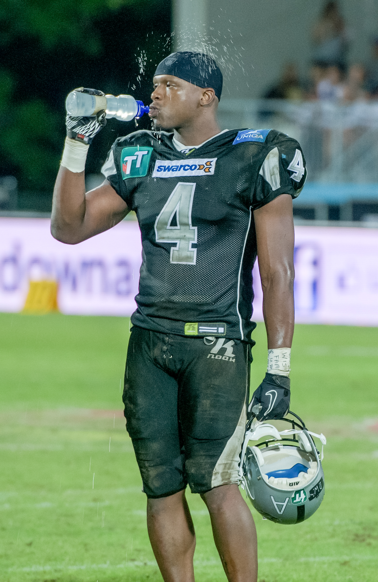 Talib Wise, Spieler der Swarco Raiders